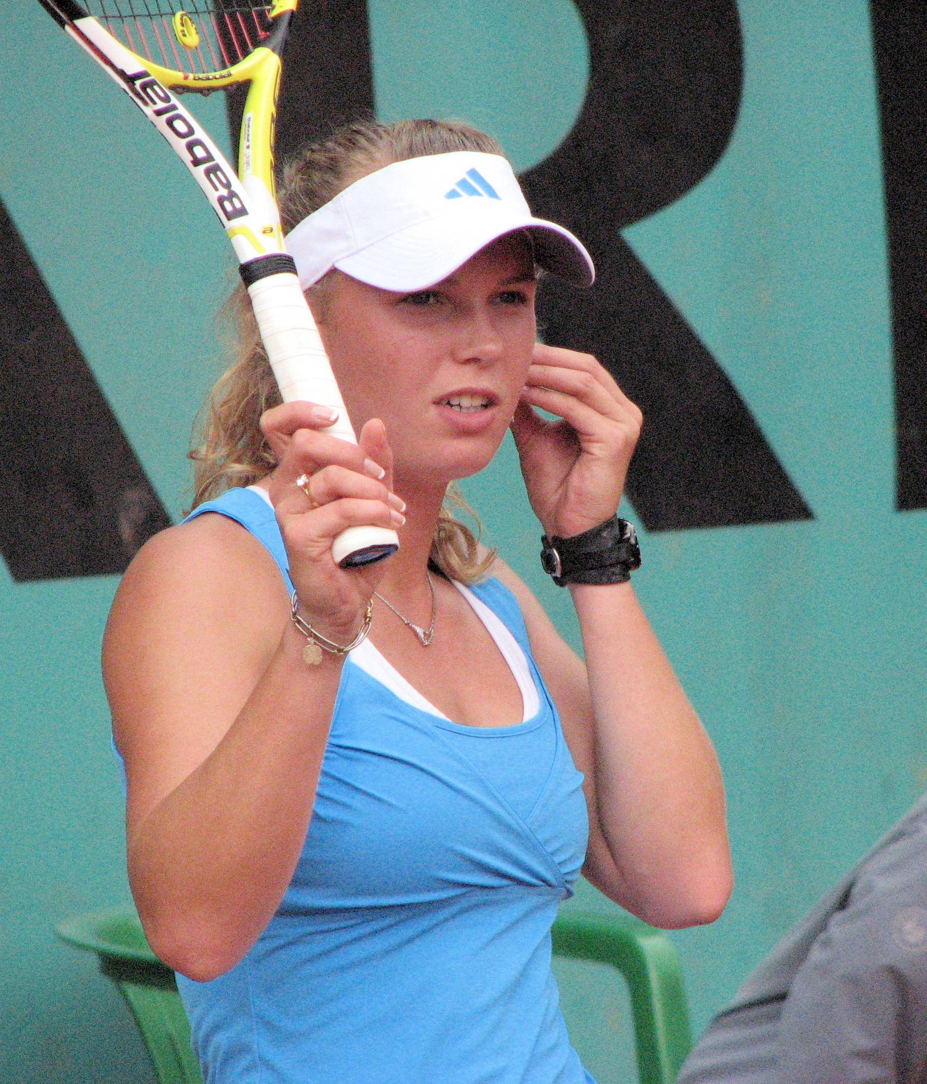 Caroline Wozniacki at the French Open (2009)